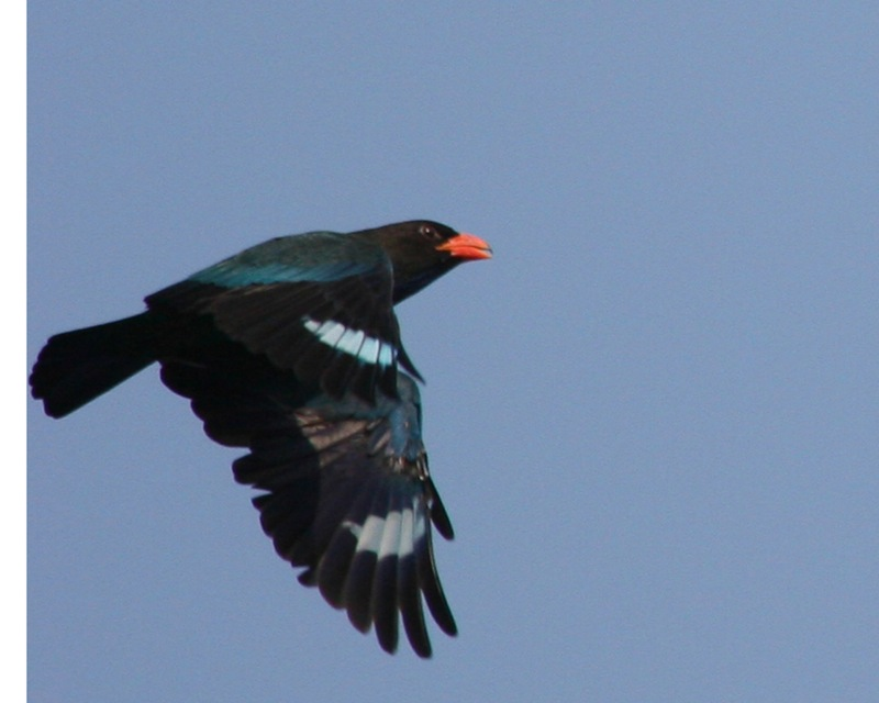 Dollarbird in flight Eurystomus orientalis Pierce Reservoir, Singapore September 11 2005 Alternative names: Broad-billed Roller, Dark Roller, dollar roller, Oriental Broad-billed Roller, Oriental Dollarbird